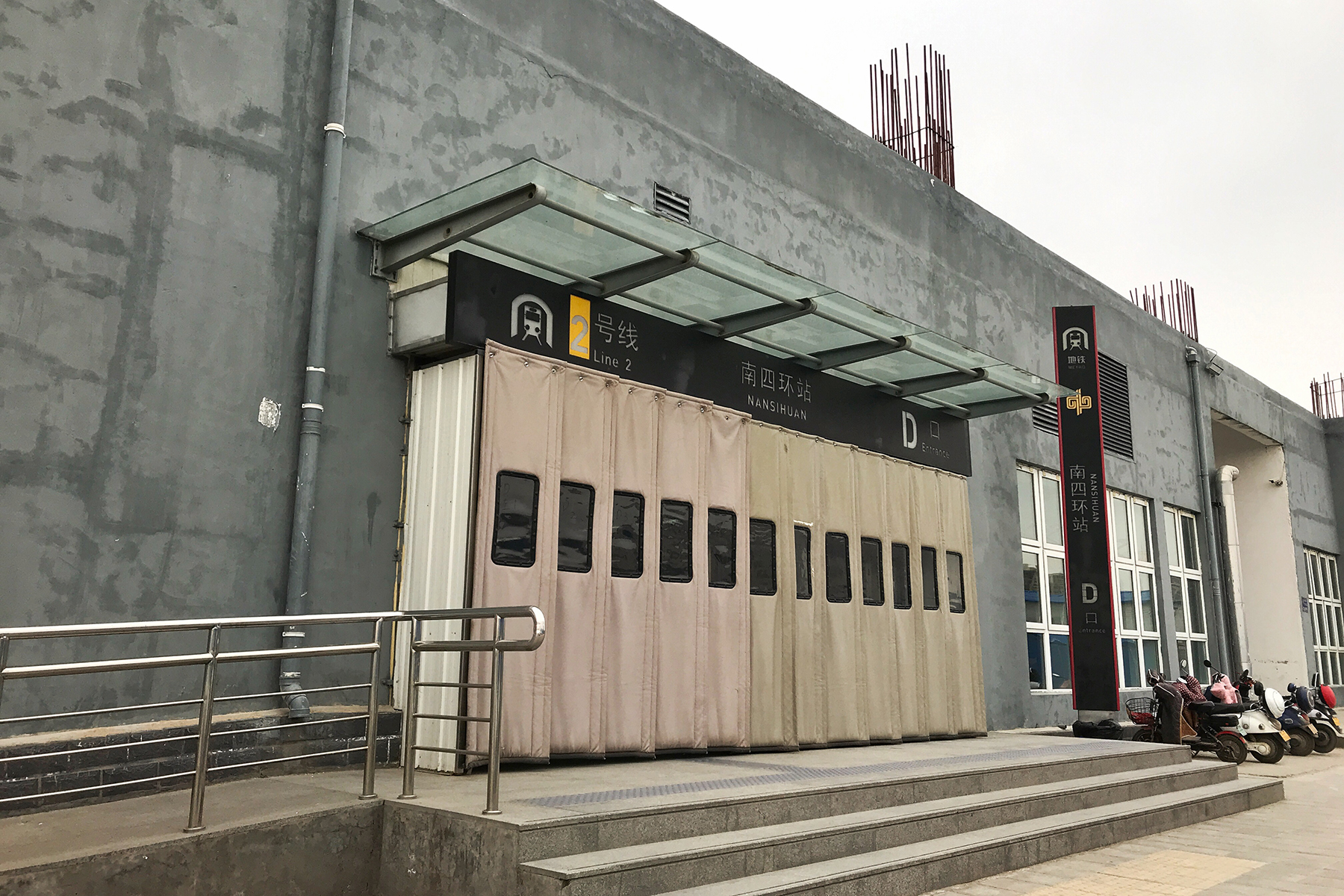 Exit D of Nansihuan Station